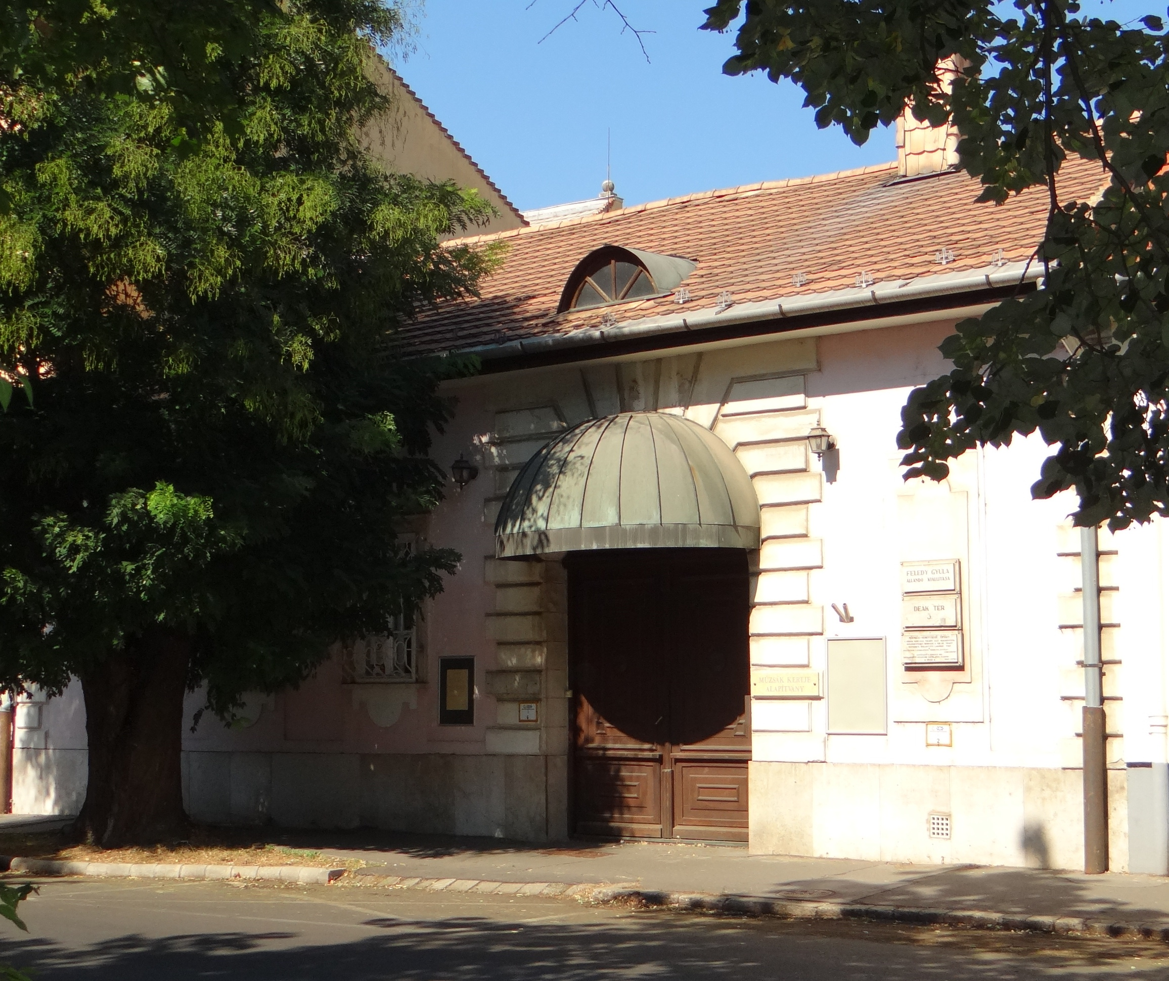 House of Gyula Feledy painter, exhibition. 3 Deák Square, Miskolc, Hungary